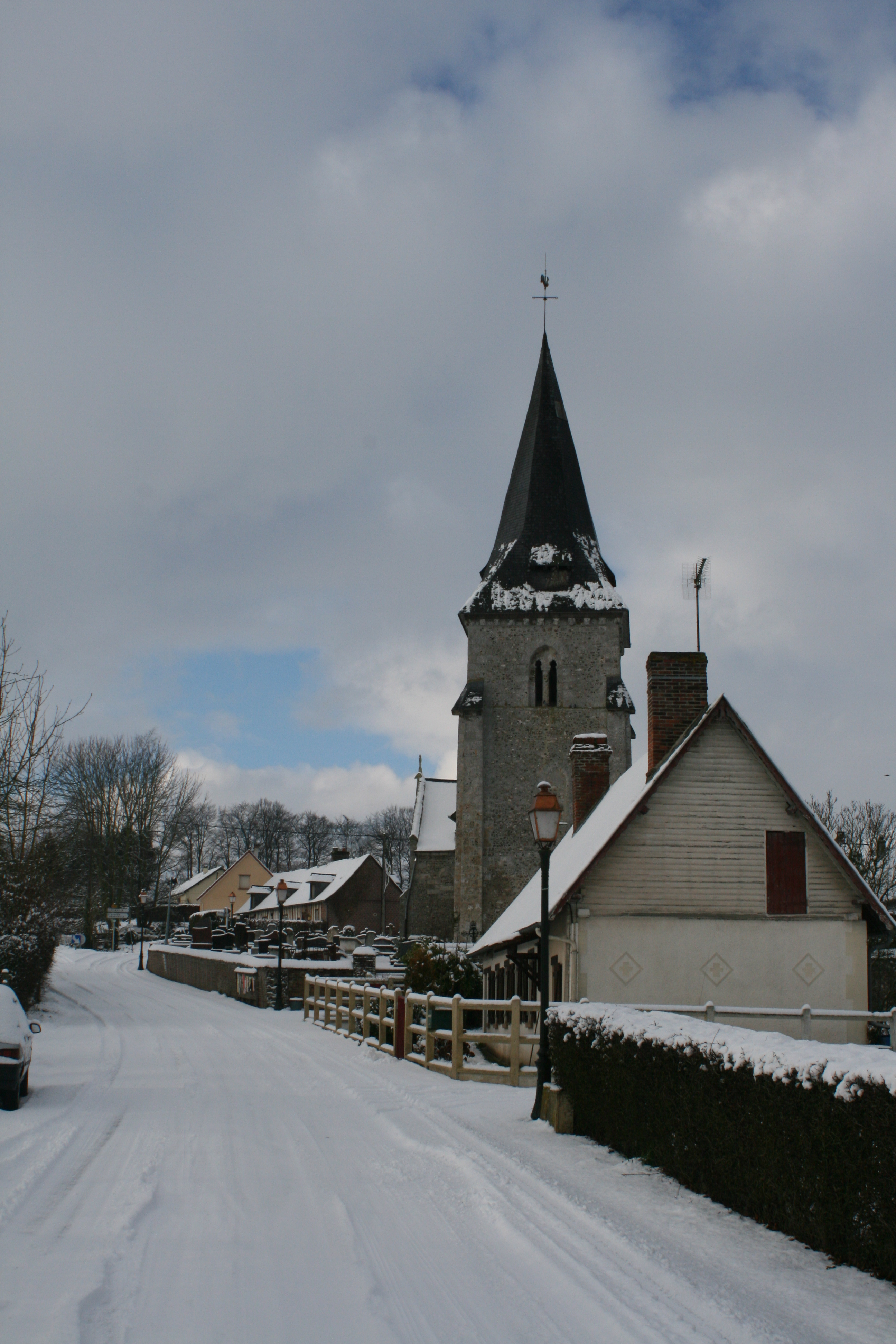 Saint mards'church